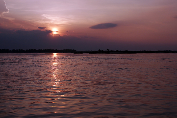 Sunset on the Mekong. Very near Kratie town, northern Cambodia.